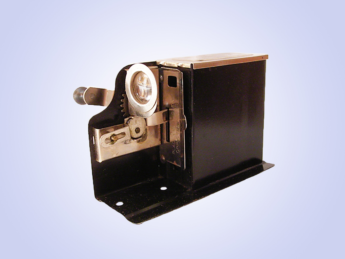 IRWIN Projector